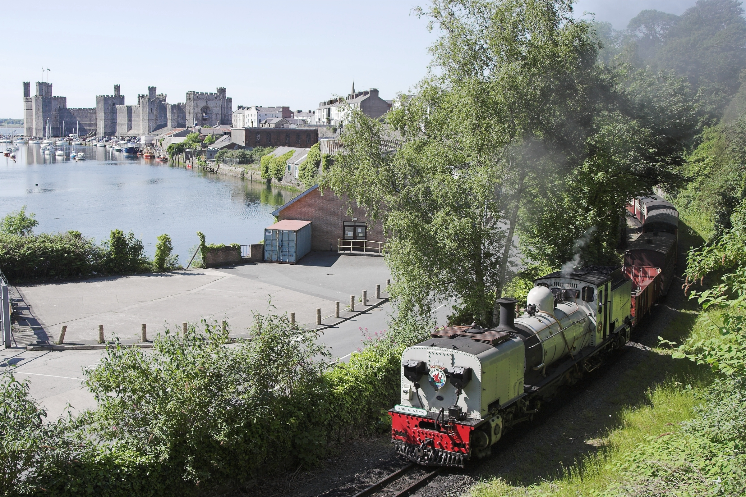 A Welsh Highland Railway train with NGG16 No.87 leaving Caernarfon.